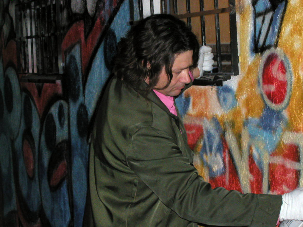 Schlockmaster Felix Weber painting on a wall